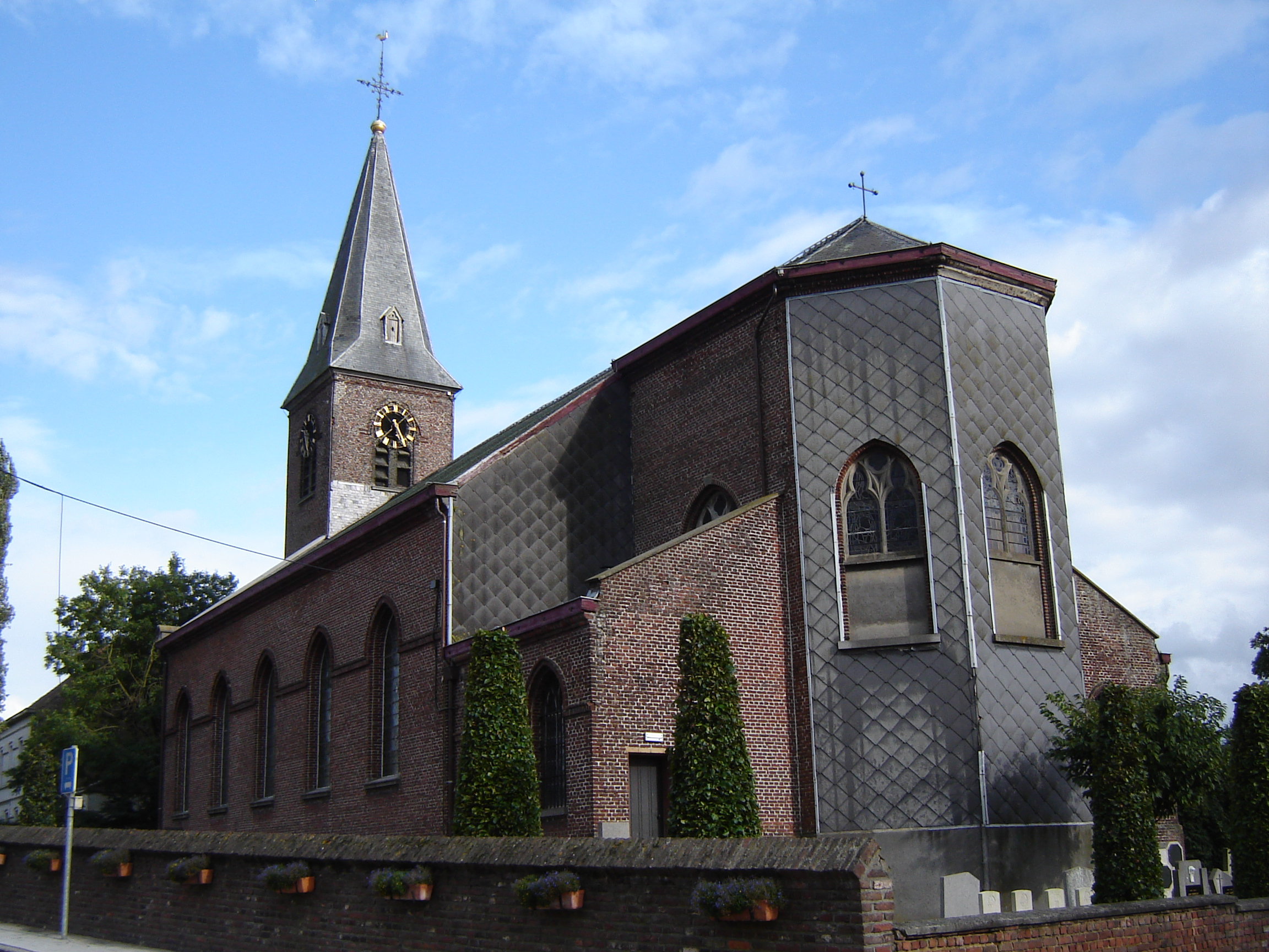 Church of Saint Matthew in Gijzelbrechtegem. Gijzelbrechtegem, Anzegem, West Flanders, Belgium